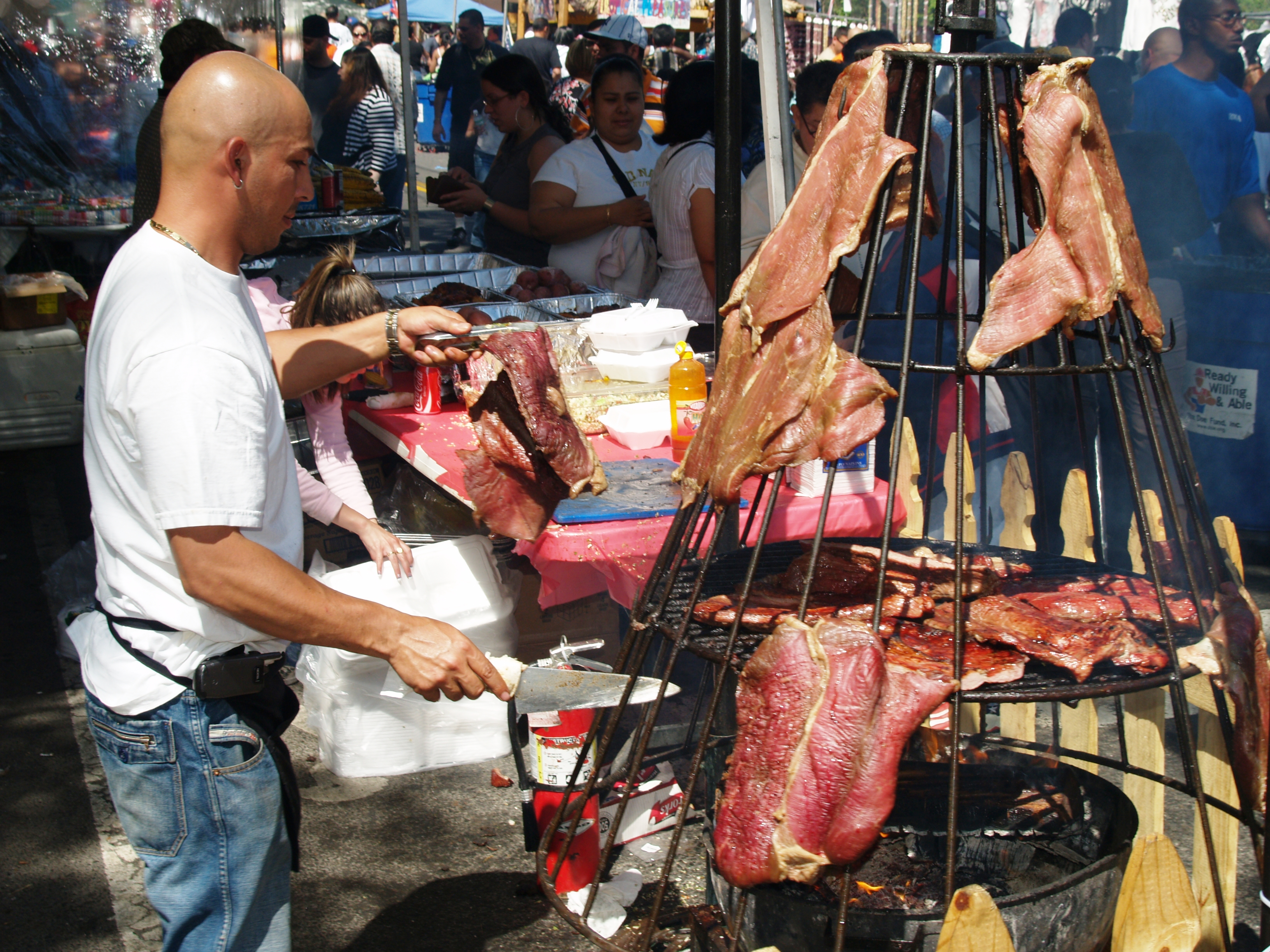 Spit barbecue meat hanging on Avenue C in the East Village (Loisaida section) during a street fair